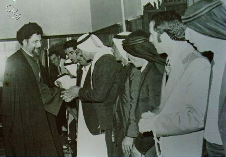 Meeting of the tribes with Imam Musa Sadr in the Supreme Council of the Shiites